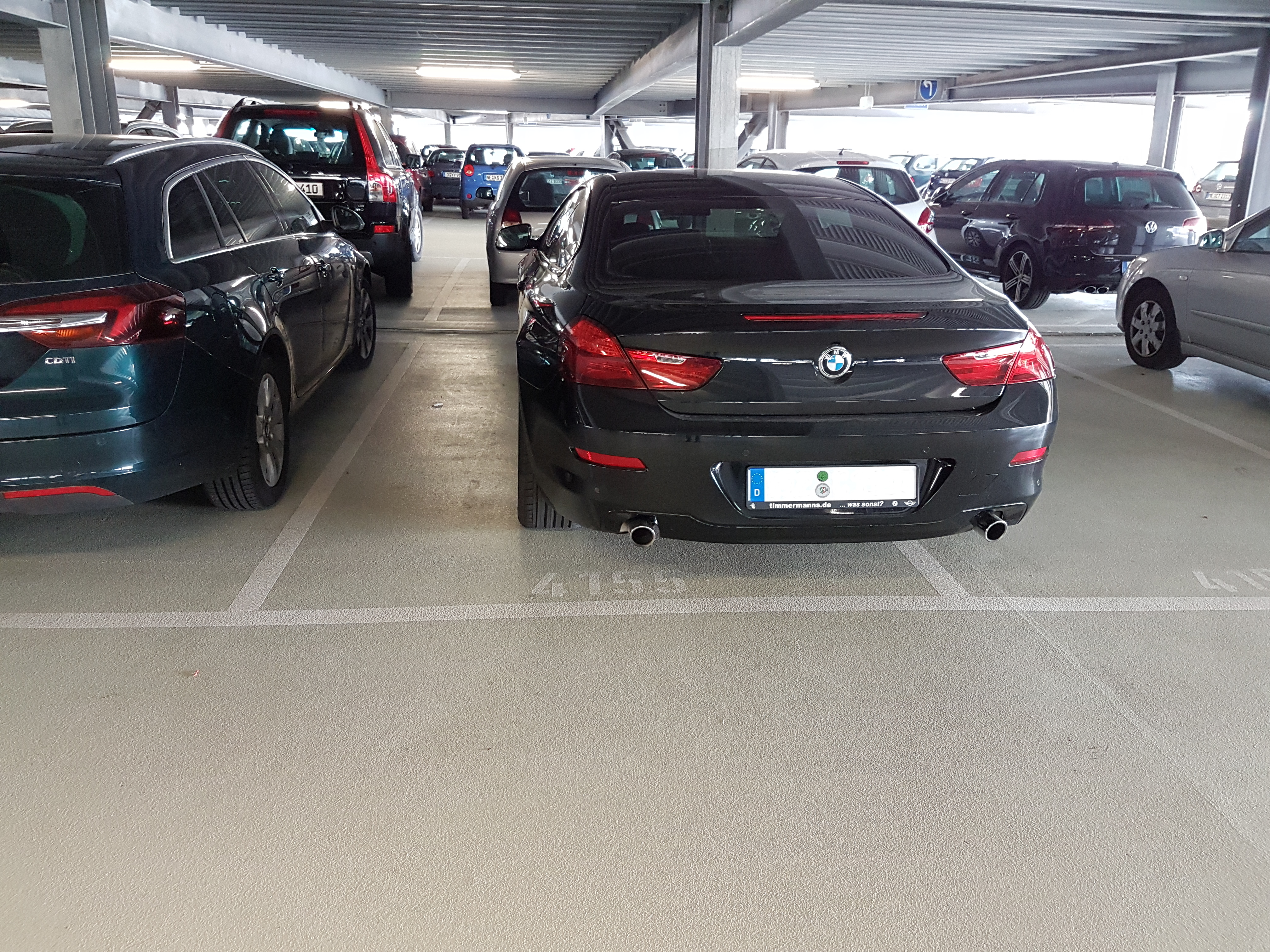 Big car claiming two parking lots in car park